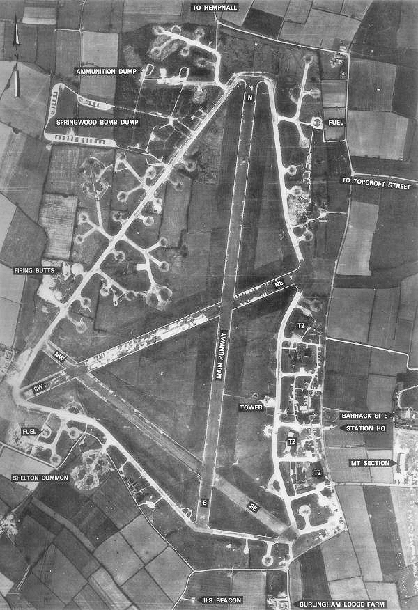 Aerial photograph of Hardwick Airfield, England.